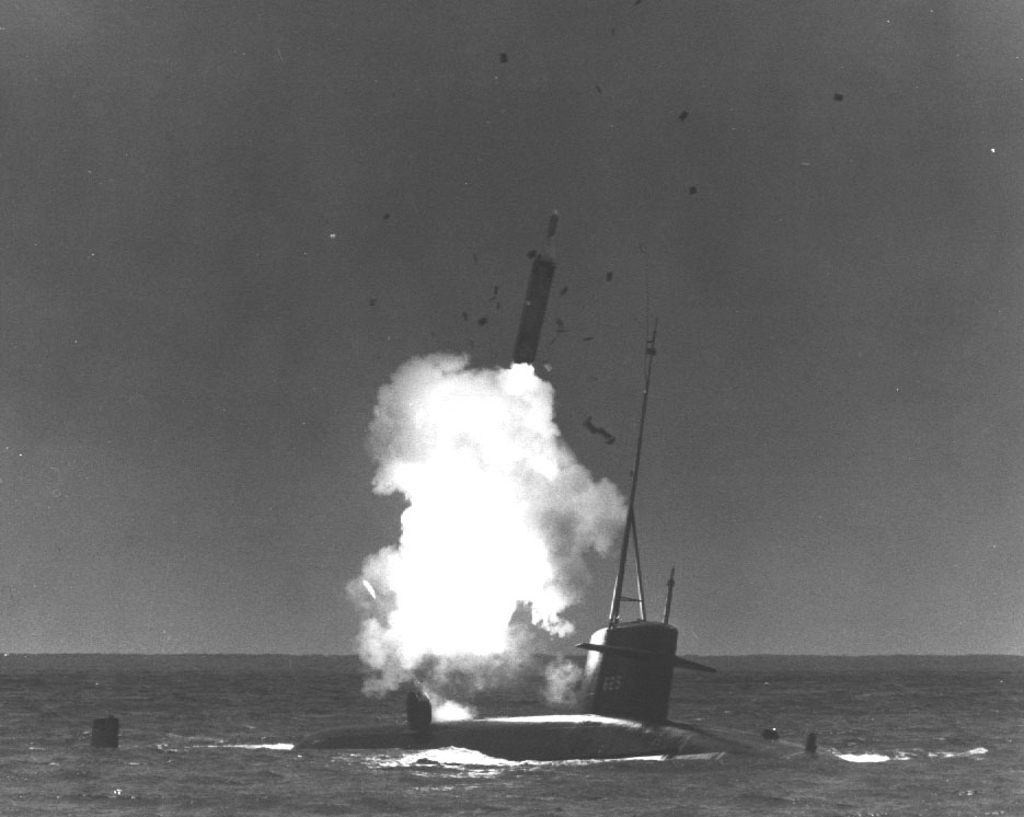 USS Henry Clay (SSBN-625) launches a Polaris A-2 missile from the surface off Cape Kennedy, Florida, in 1964. The mast atop the sail is a telemetry antenna used for test launches. Stowage adaptors flying high also visible. This was the first of only two surface SLBM launches from U.S. submarines